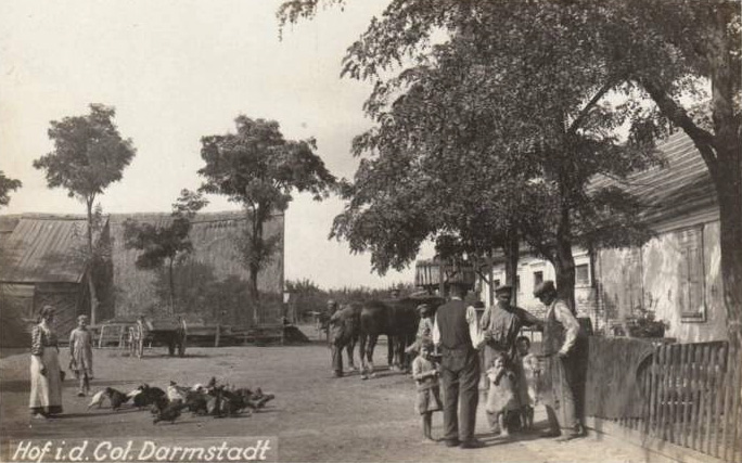 German Lutheran settlement Darmstadt (nowtime Romashki, Melitopolskyi Raion, Zaporizhia Oblast, Ukraine). 1918